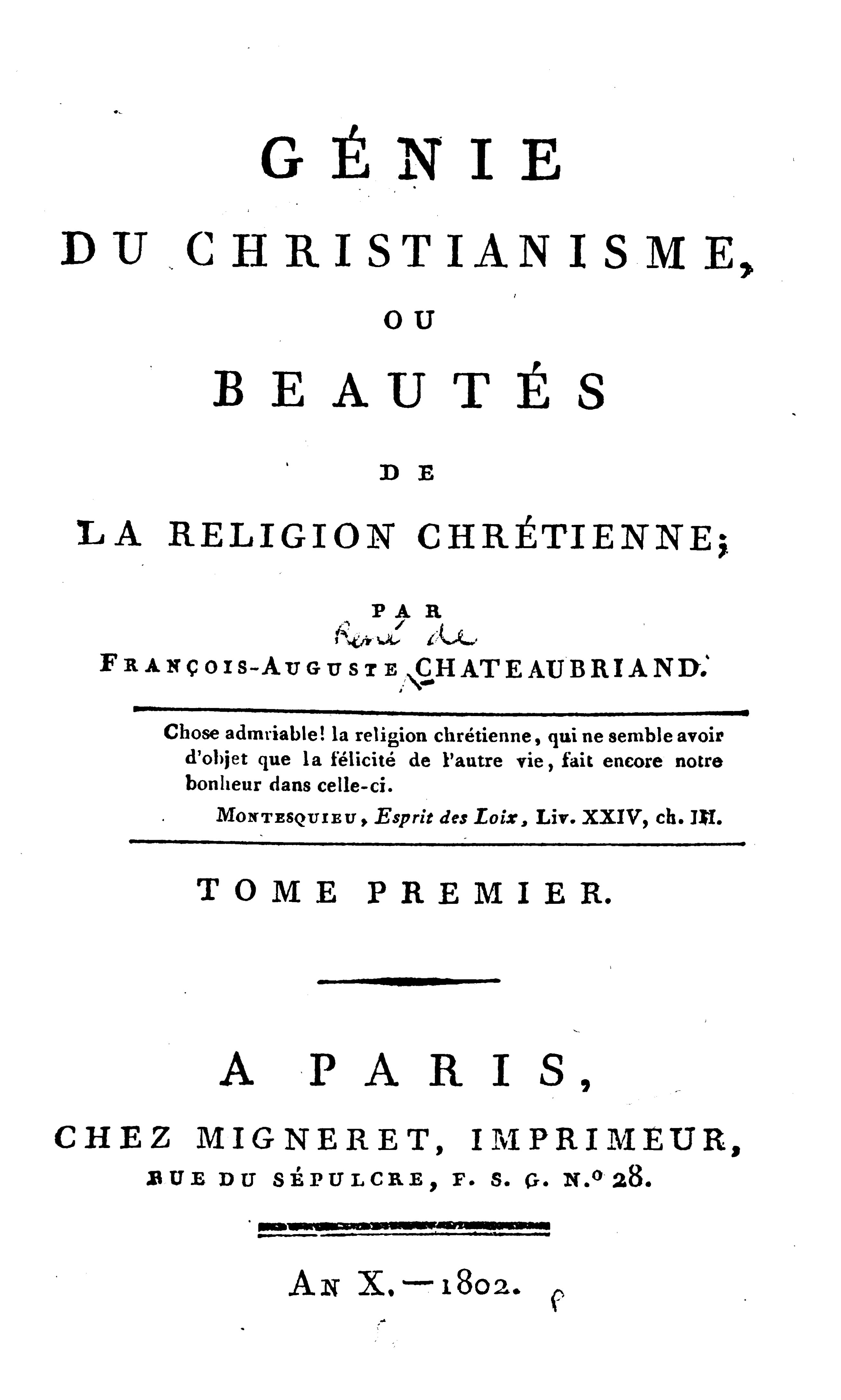 Title page of the tome premier of the 1802 edition of Génie du christianisme